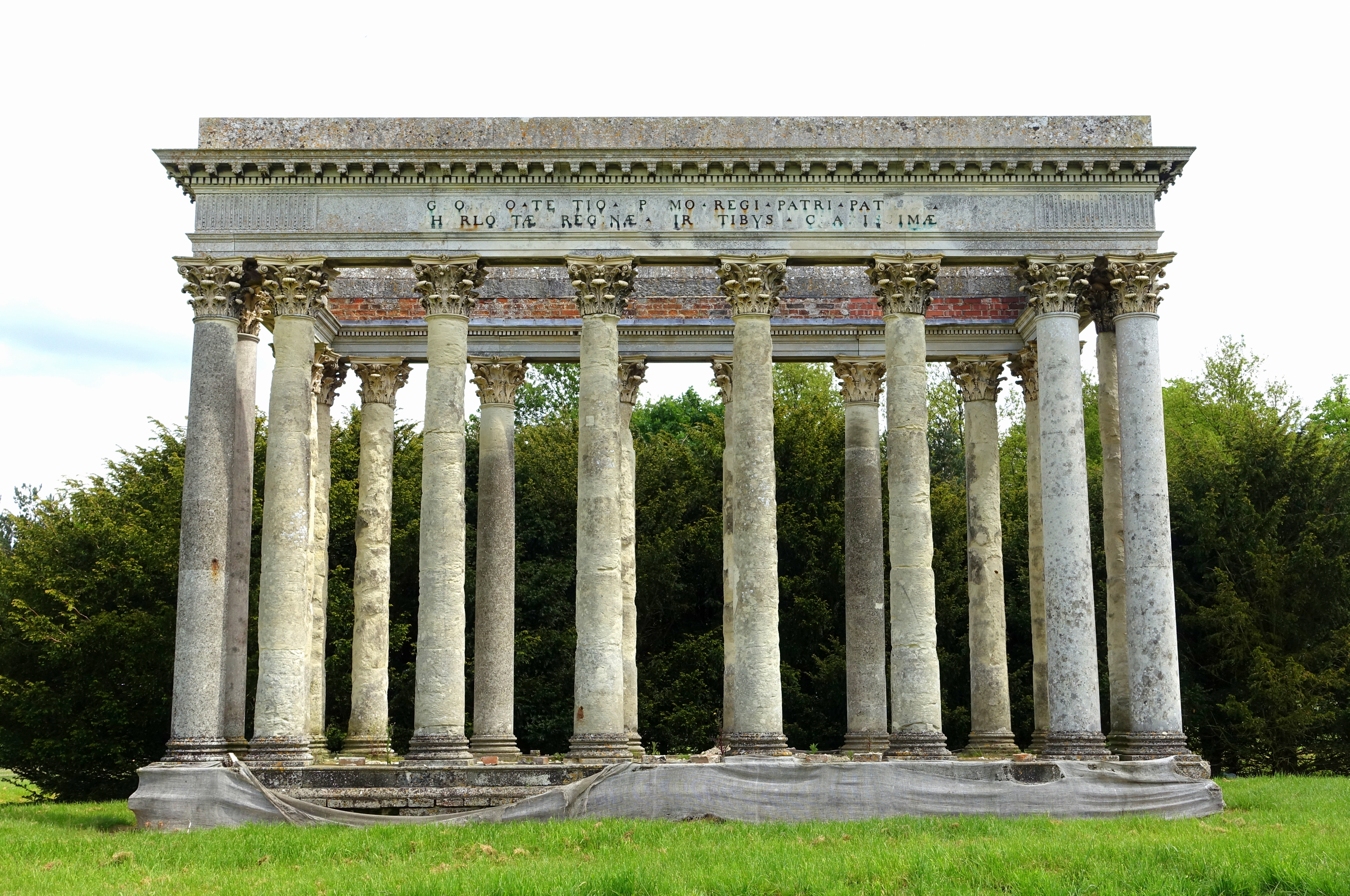 Temple Of Concord - Audley End House - Essex, England.